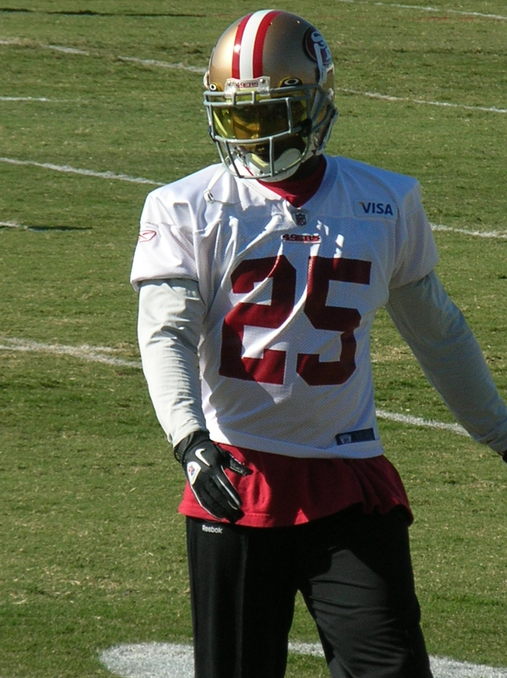 San Francisco 49ers cornerback Tarell Brown at training camp in Santa Clara, California.